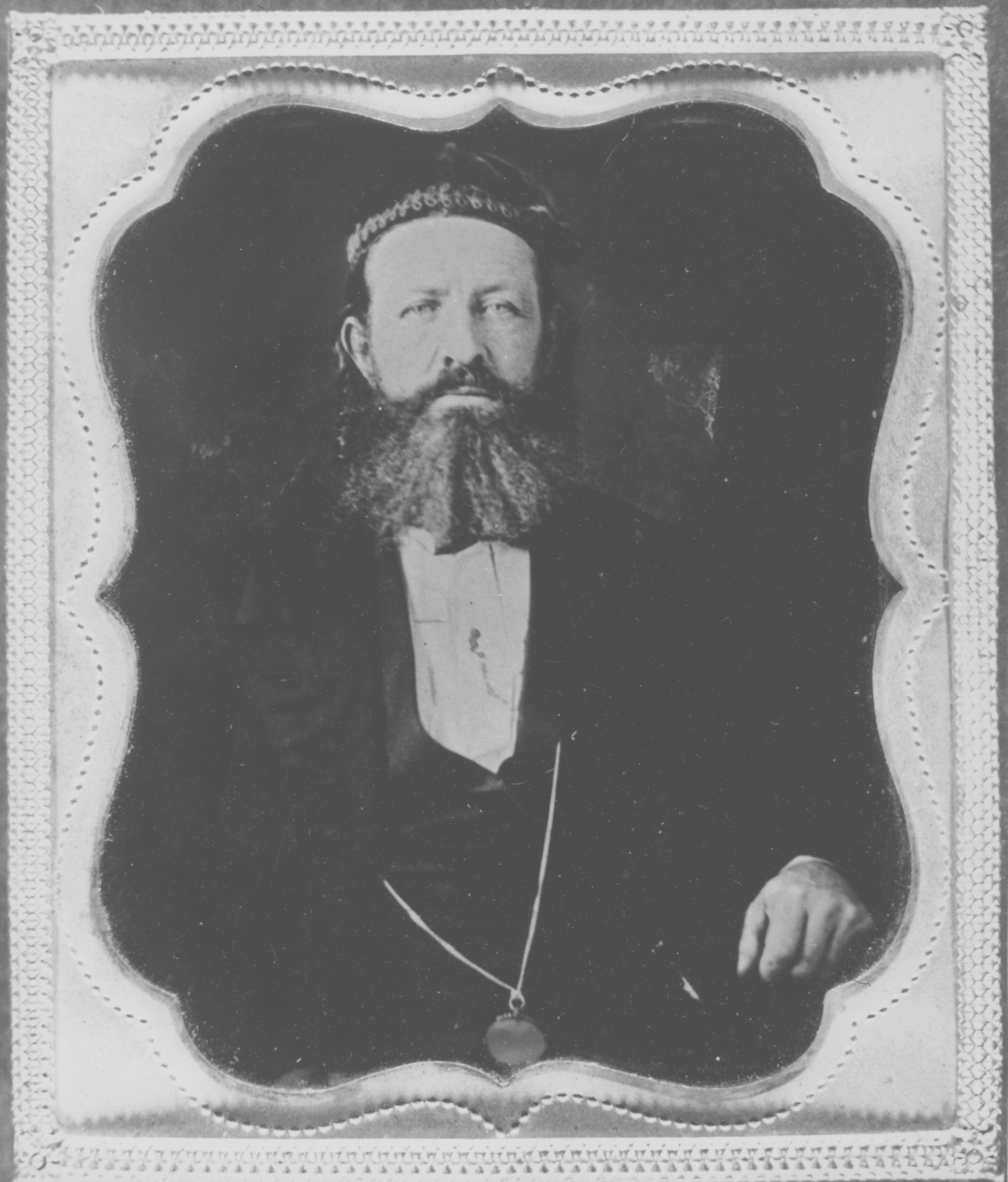 Warder Cresson (1798-1860): first American consul general in Jerusalem